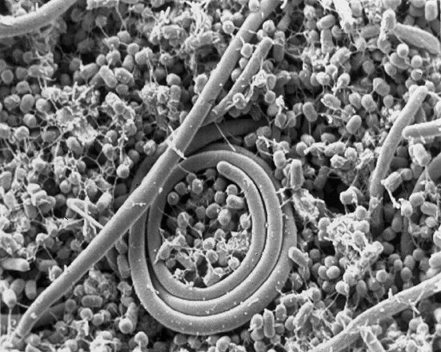 Example of signaling between bacteria. Salmonella enteritidis uses acyl-homoserine lactone for Quorum sensing